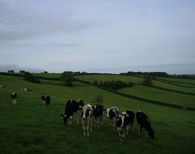 Beaminster Down viewed from the Monarch's Way Looking south west from the Monarch's Way (close to the road leading to East Axnoller Farm), across a herd of Friesian cattle, to Beaminster Down.